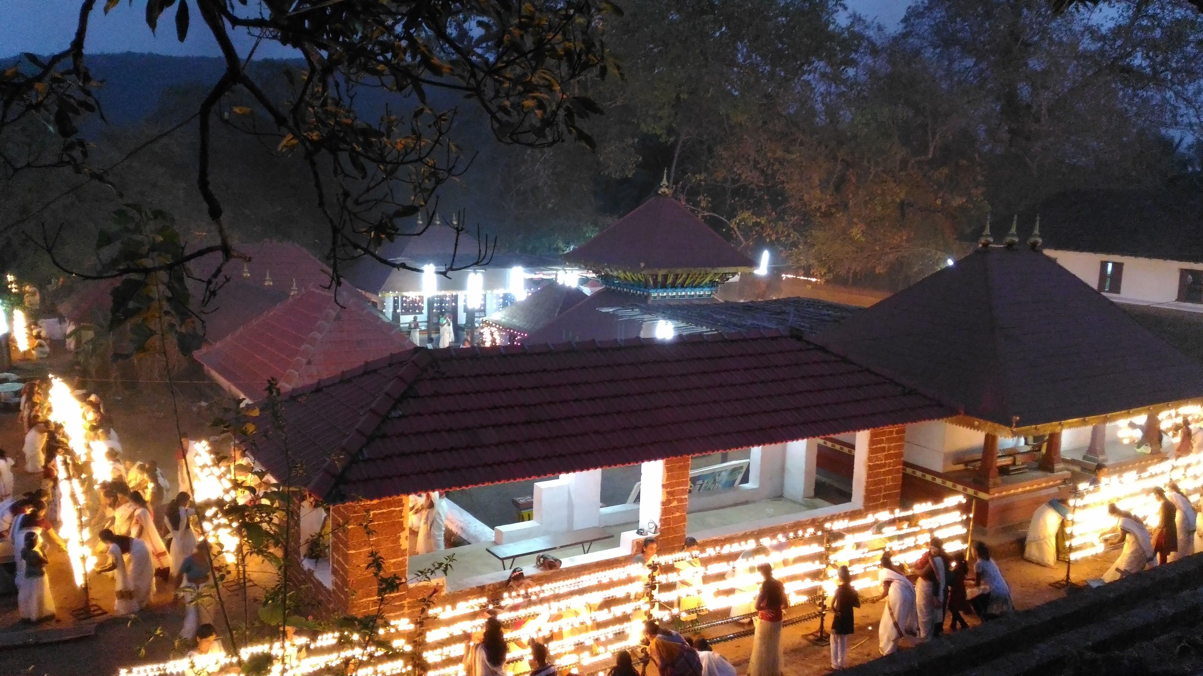 Lakshadeepam at Madikai Madam in Kasaragod district